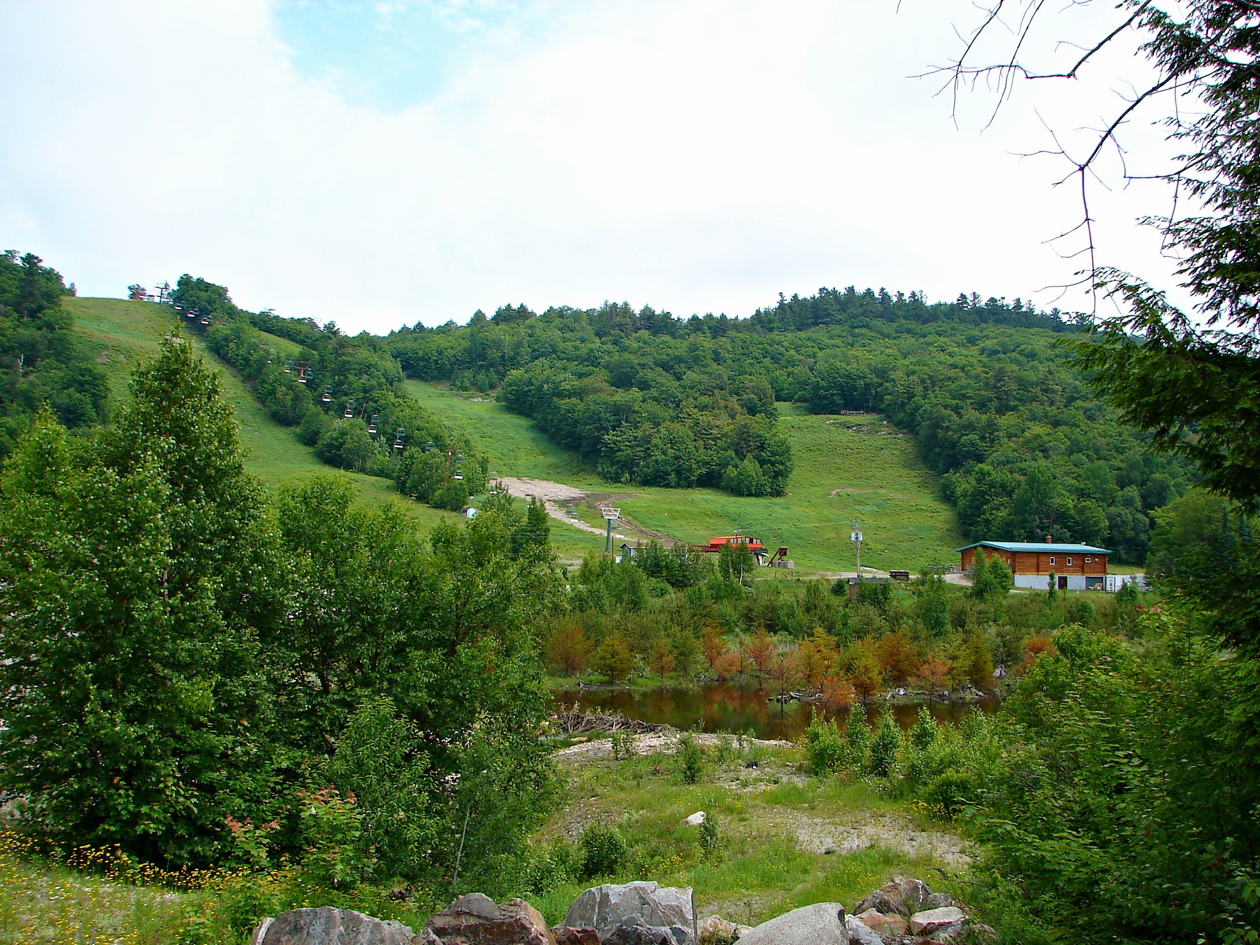 Mount Dufour ski hill, Elliot Lake, Ontario, Canada